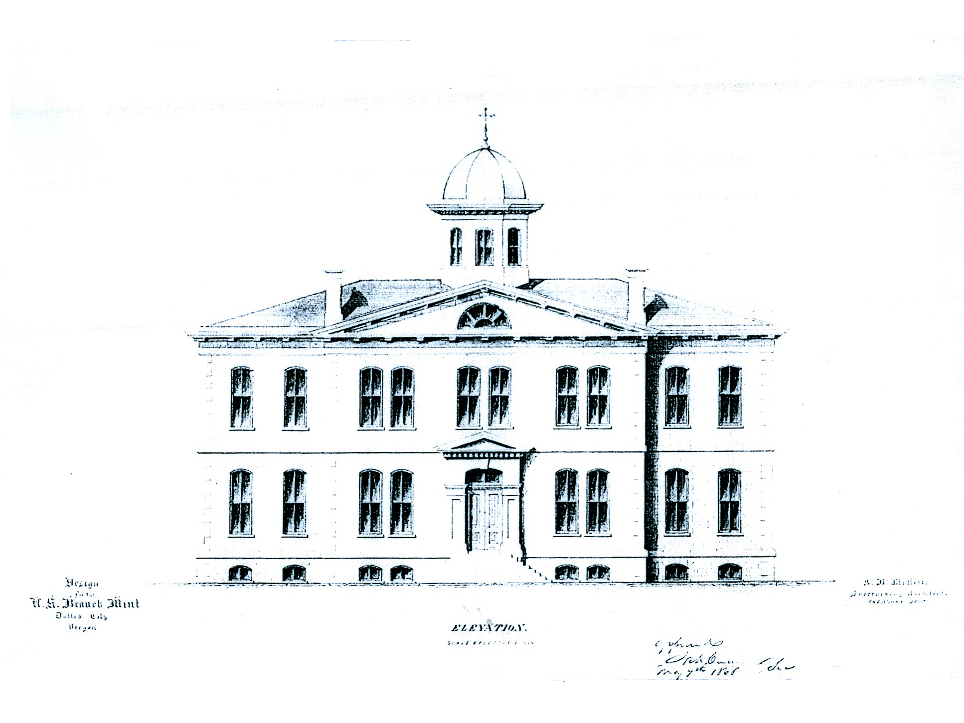 Blueprint for The Dalles Mint in Oregon.